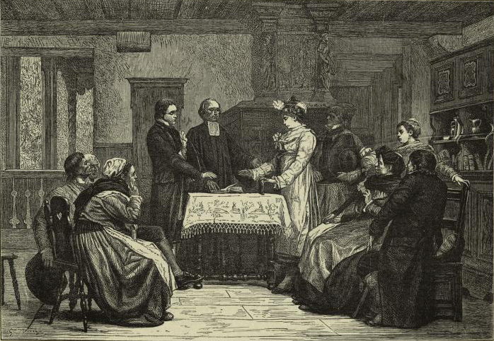 "A Protestant wedding in Alsace"